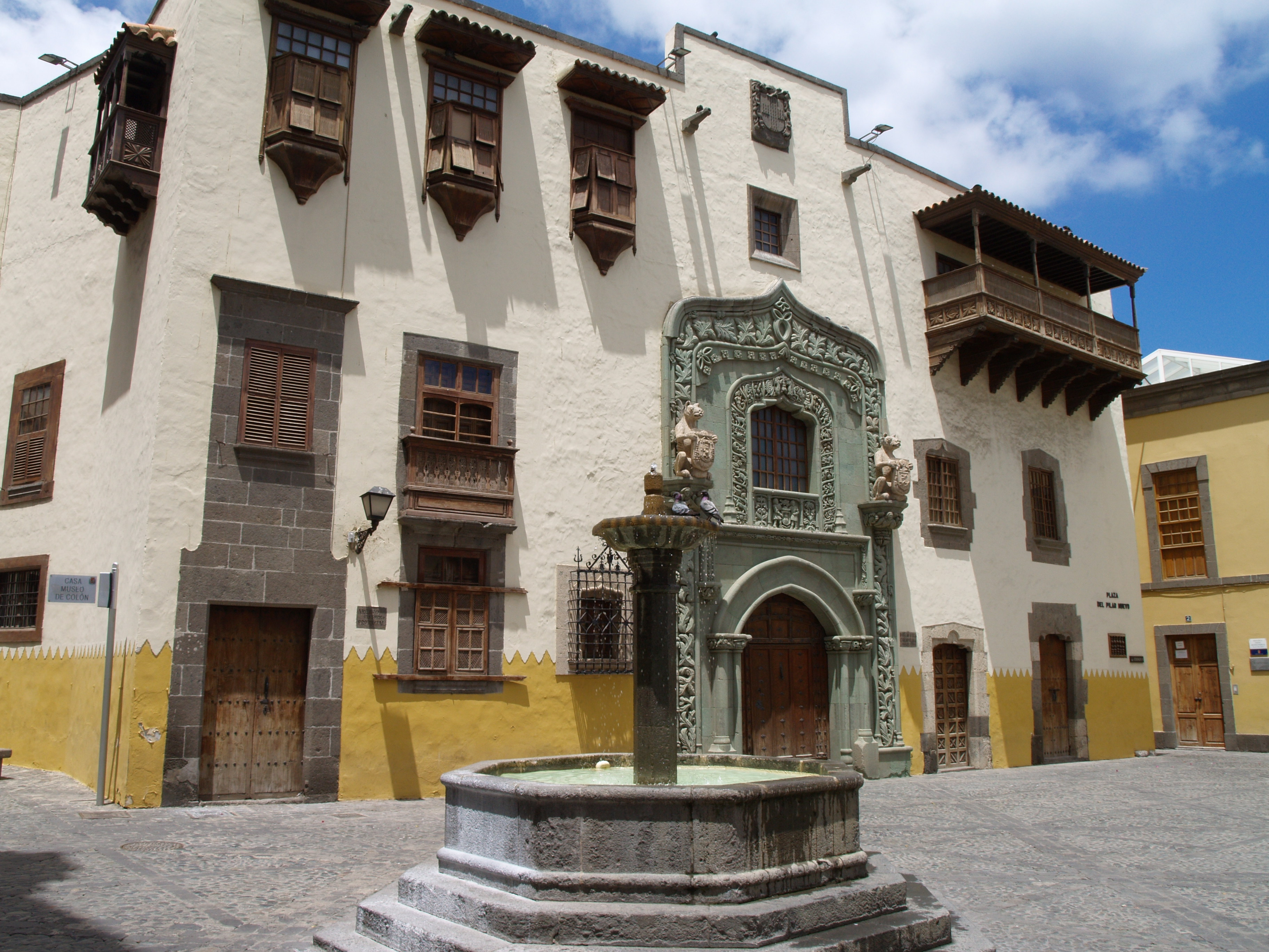 Christopher Columbus House & Pilar Nuevo Square, Vegueta Quarter in Las Palmas de Gran Canaria (Gran Canaria). Canary Islands, Spain.